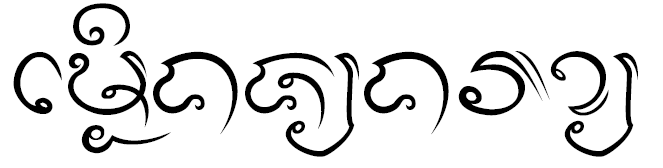 Lanna-Mueang Chiang Rai